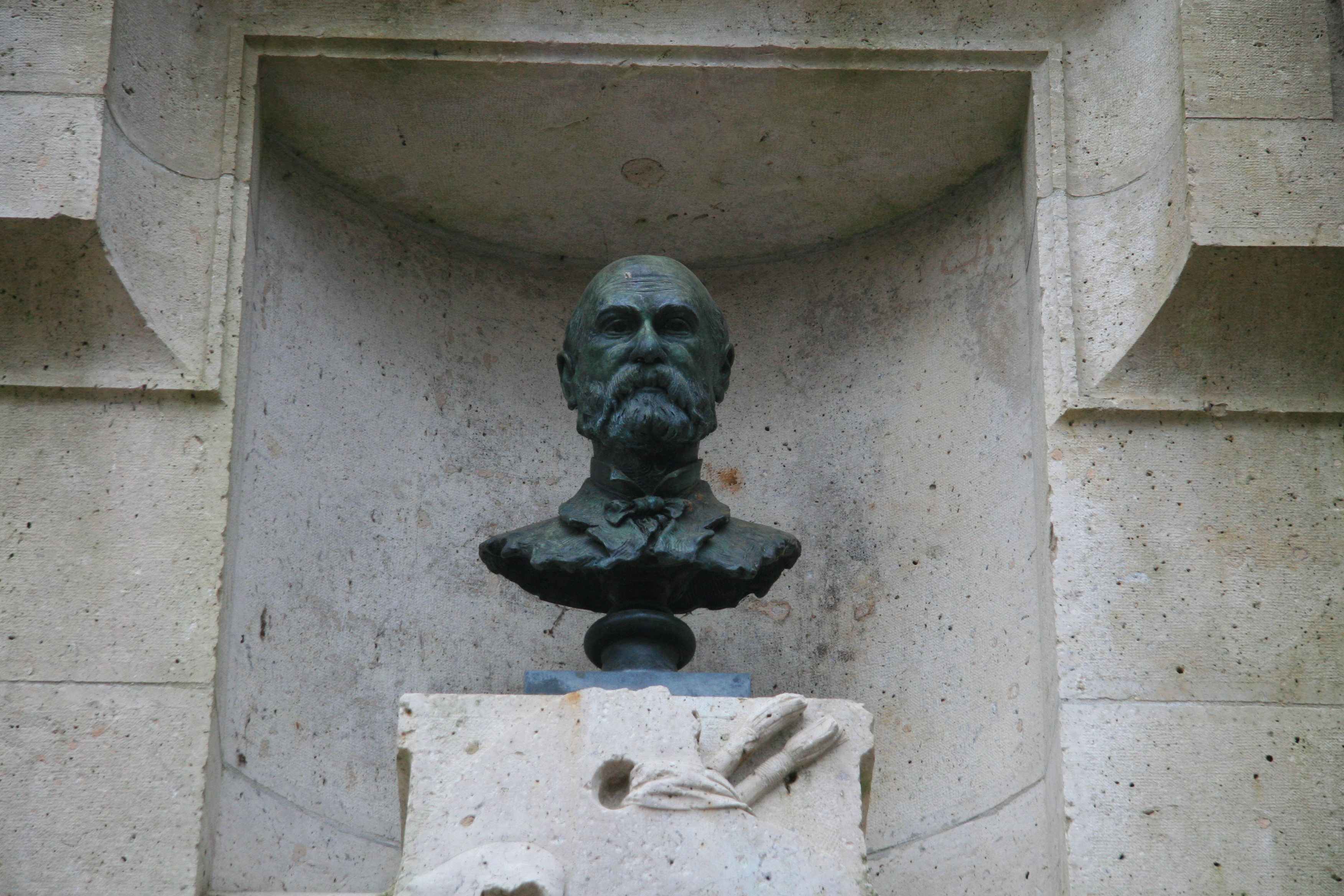 Monument to painter Leon Germain Pelouse, in Vaux de Cernay, France, with a bust by Alexandre Falguière